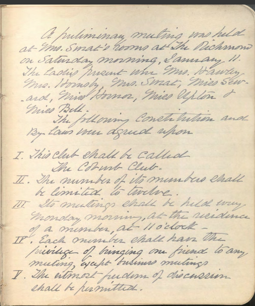 rules